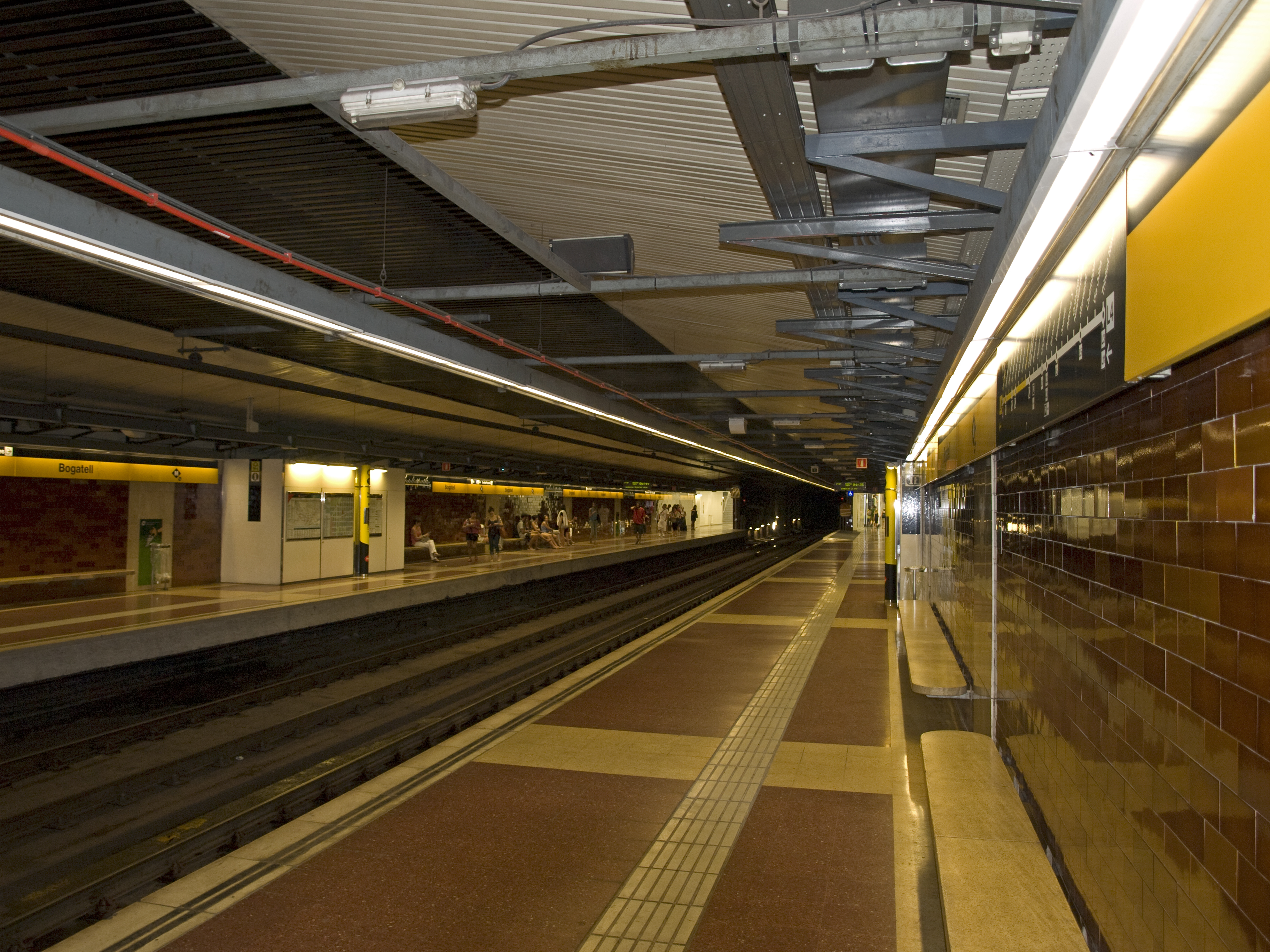 Bogatell station platforms, line L4, Barcelona Metro. The photo is taken from the southbound platform.